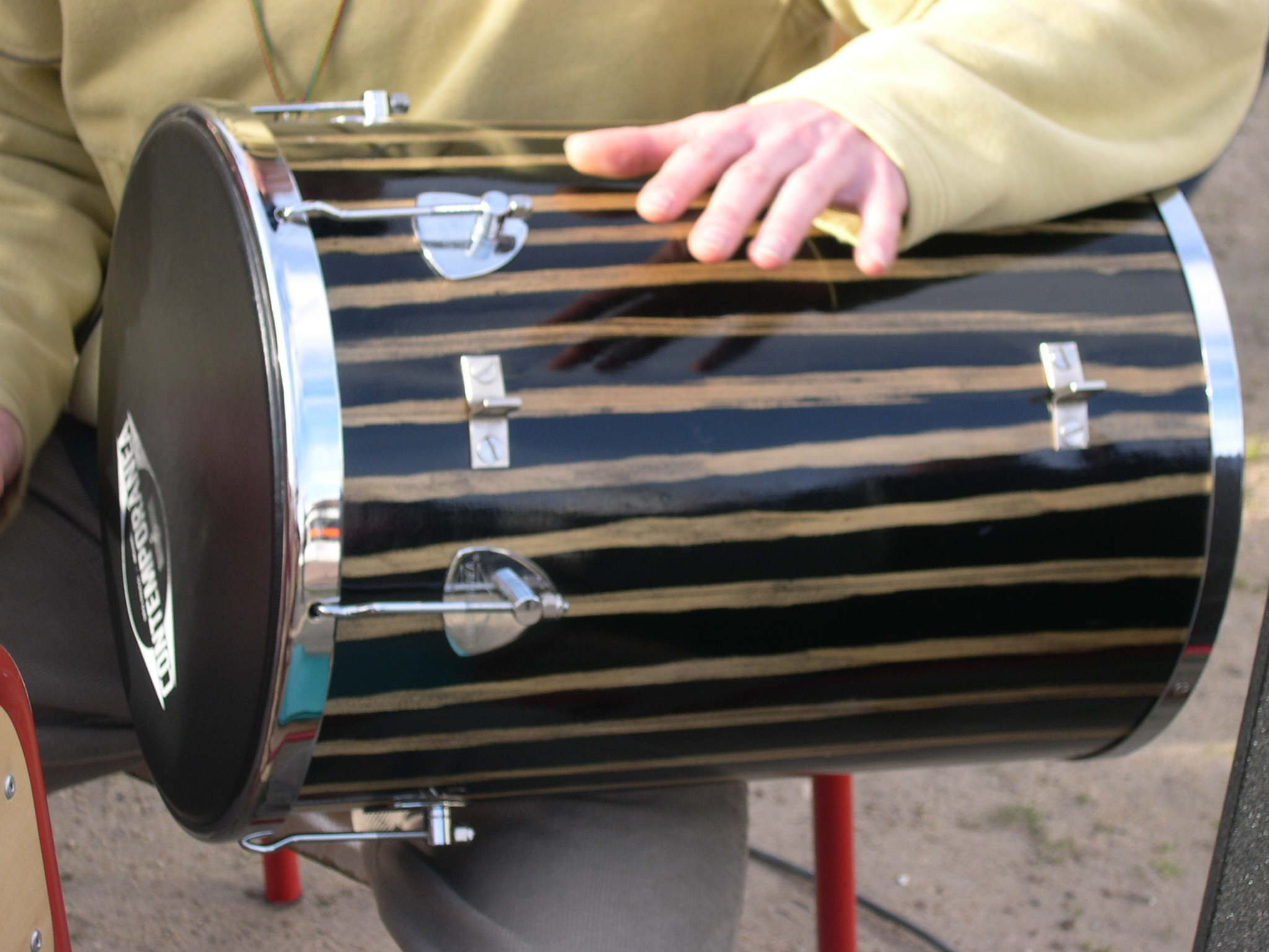 Tam-tam - Side view.